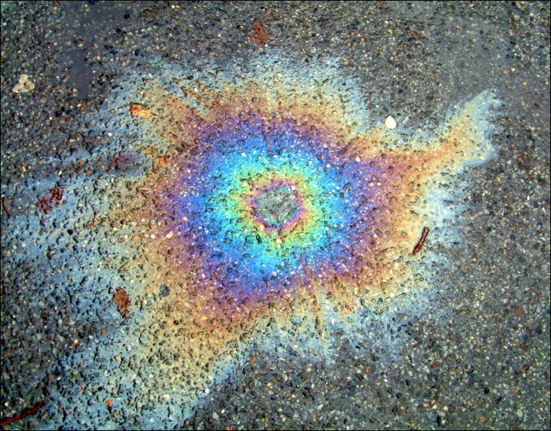 Oil drop (on a street) and interference color. Size about 30x30 cm².